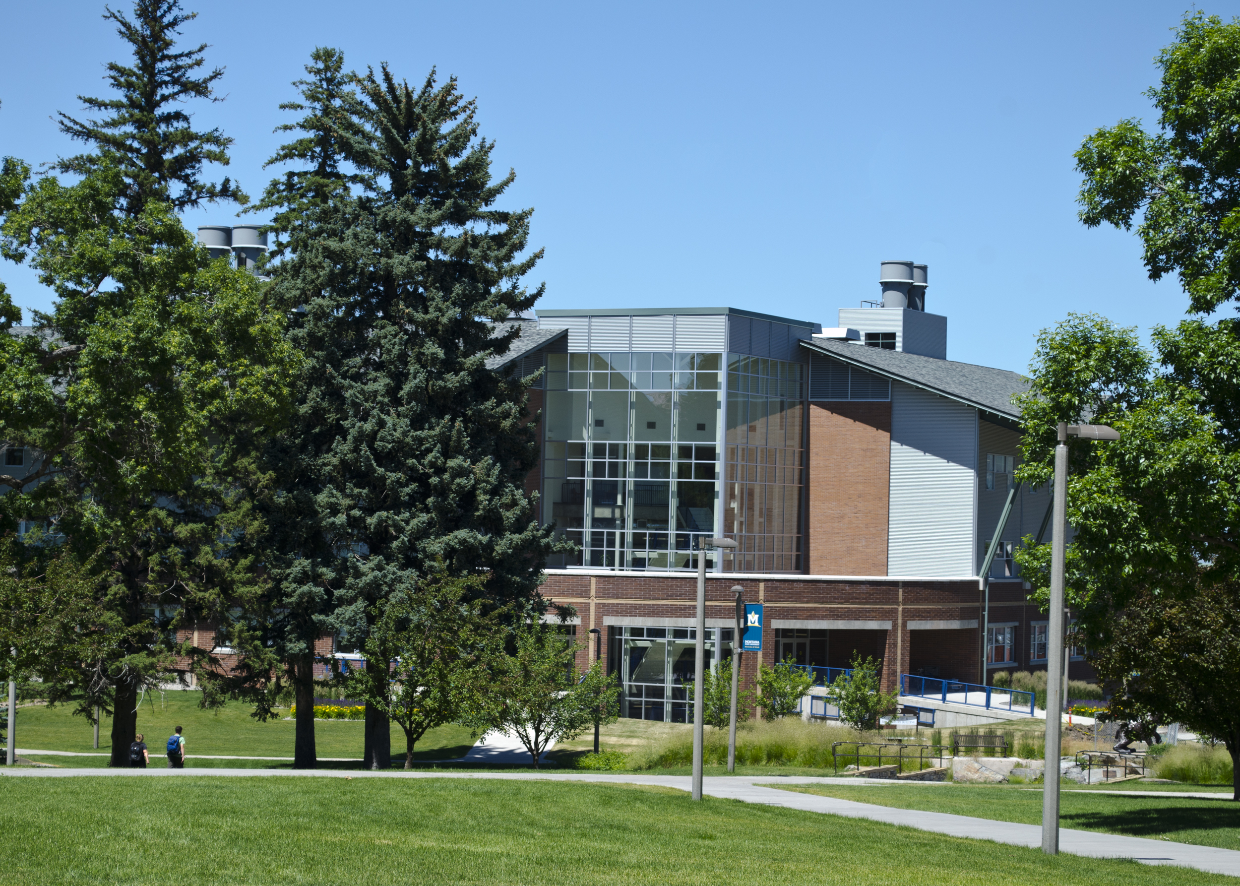 Looking northwest from the Quad at the Chemistry & Biochemistry Building on the campus of Montana State University in Bozeman, Montana. Completed in fall 2007, the $23.3 million, 73,000 square-foot, four-story Chemistry & Biochemistry Building houses laboratories and offices for 20 MSU researchers and 180 graduate assistants, research assistants and support staff. It was designed by the architectural firm of L'Heureux, Page, Werner, of Great Falls, Montana, with laboratories designed by RFD (Research Facilities Design of San Diego, California). The building was paid for with bonds. The principal and interest on the bonds is paid for by facilities and administrative (F&A) costs embedded in grants and contract awards that come from the U.S. federal government. The state of Montana contributed nothing toward the building. The laboratories in the brick, glass, masonry, and metal building will line the exterior of the structure. In the center is a large lecture hall known as the "think tank", designed for high-tech collaborative lecture, study, and discussion. Offices are built in clusters, so that research assistants, graduate stuents, and support staff are gathered around key faculty and research scientists. The building features a four-story atrium with glass curtain walls over the entrance. The Chemistry & Biochemistry Building also houses the Center for Bio-Inspired NanoMaterials, the Thermal Biology Institute, and the CoBRE Center for the Analysis of Cellular Mechanisms and Systems Biology. As of December 2012, MSU's Department of Chemistry and Biochemistry ranked 28th in the nation in the number of federal research dollars received -- more than Yale, Princeton, or other top U.S. schools. Yet, it is one of the smallest such departments in the Northwest United States, with just 18 full-time tenure-track faculty (compared to 40 for other schools.